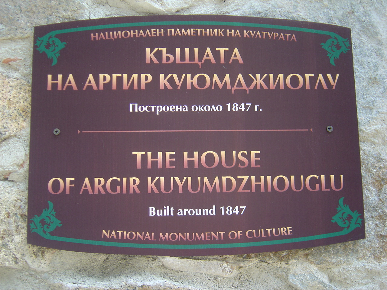 Plovdid museum entrance